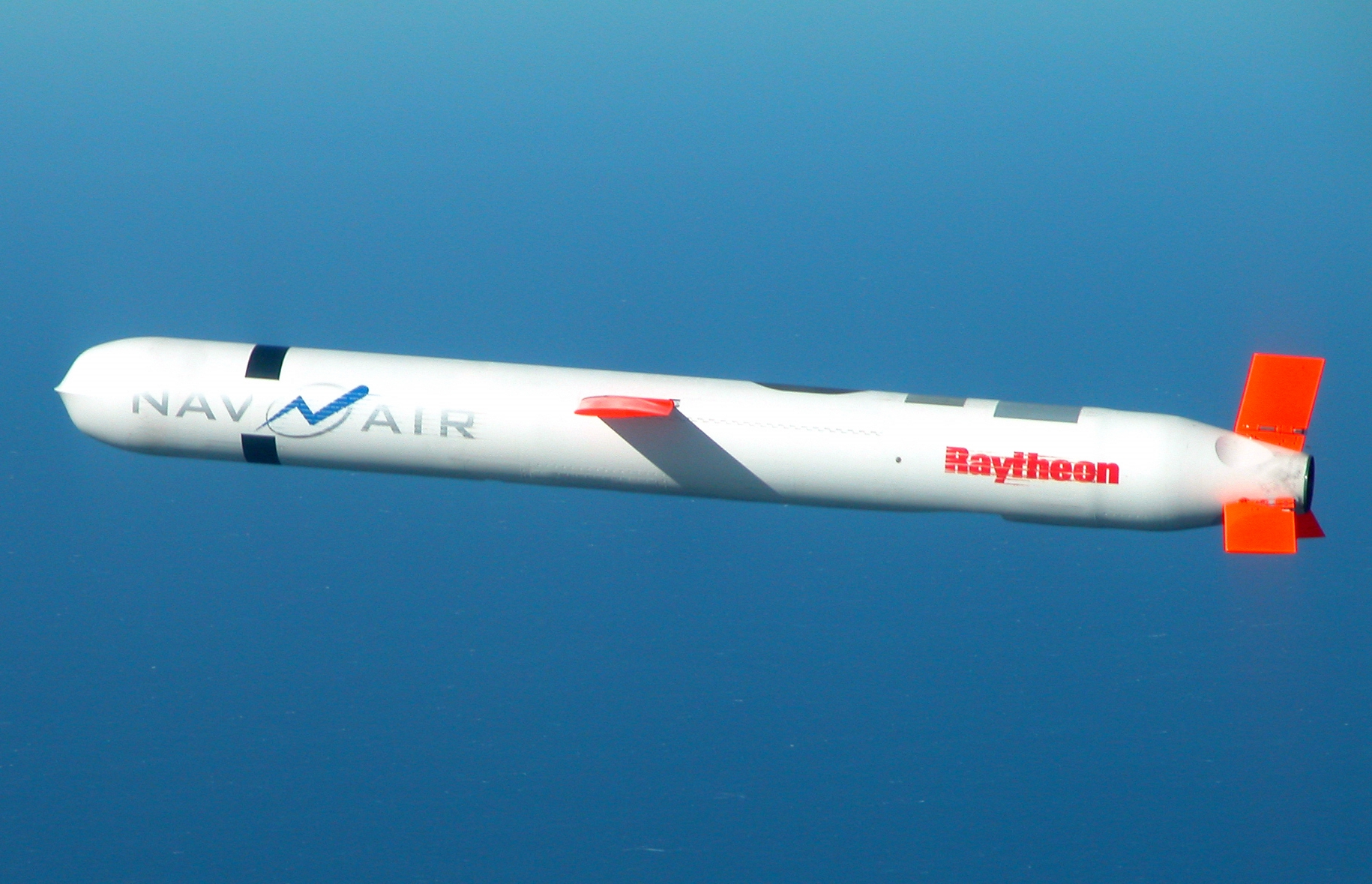 Tomahawk Block IV cruise missile during a flight test (US Navy) * original image caption: 021110-N-0000X-003 China Lake, Calif. (Nov. 10, 2002) -- A Tactical "Tomahawk" Block IV cruise missile, conducts a controlled flight test over the Naval Air Systems Command (NAVAIR) western test range complex in southern California. During the second such test flight, the missile successfully completed a vertical underwater launch, flew a fully guided 780-mile course, and impacted a designated target structure as planned. The Tactical Tomahawk, the next generation of Tomahawk cruise missile, adds the capability to reprogram the missile while in-flight to strike any of 15 preprogrammed alternate targets, or redirect the missile to any Global Positioning System (GPS) target coordinates. It also will be able to loiter over a target area for some hours, and with its on-board TV camera, will allow the war fighting commanders to assess battle damage of the target, and, if necessary redirect the missile to any other target. Launched from the Navy's forward-deployed ships and submarines, Tactical Tomahawk will provide a greater flexibility to the on-scene commander. Tactical Tomahawk is scheduled to join the fleet in 2004. U.S. Navy photo. (RELEASED) * image